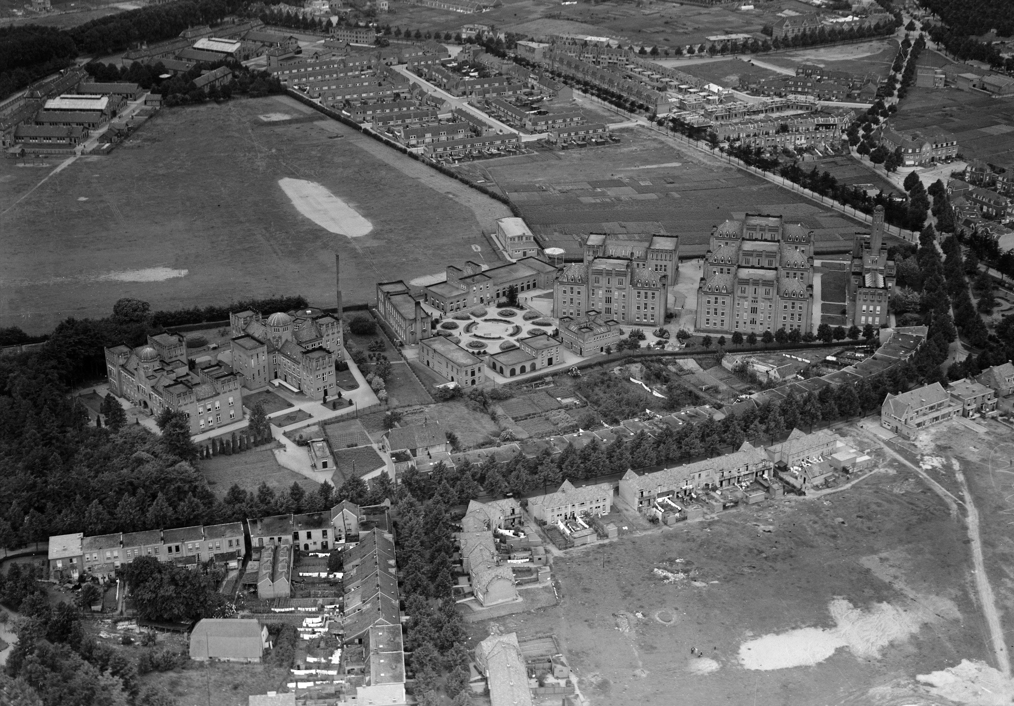 Prins Hendrikkazerne Koloniale Reserve KNIL Nijmegen Dommer van Poldersveldtweg 112 - Daalseweg 380 Jo Limburg c. 1930 Collectie Nederlands Instituut voor Militaire Historie